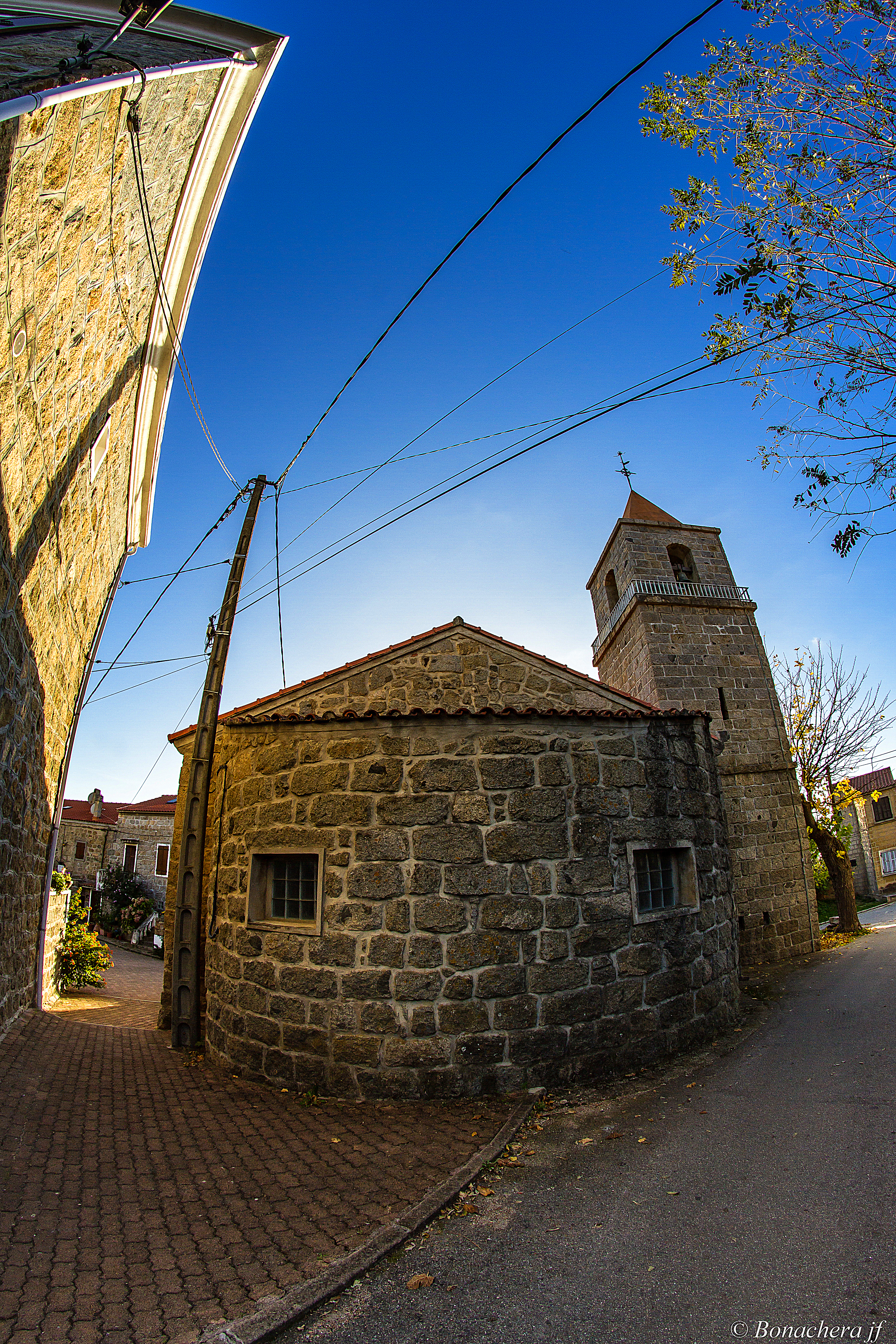 Vue arriere de l'église Saint-Pierre et Saint-Paul